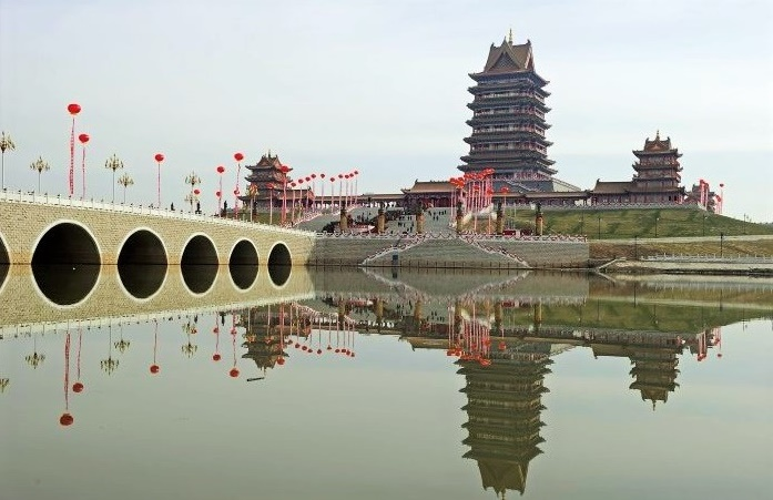 "Chinese Yellow River Tower" (中华黄河楼), a tourist attraction and museum built in 2012 in Qingtongxia, Ningxia.